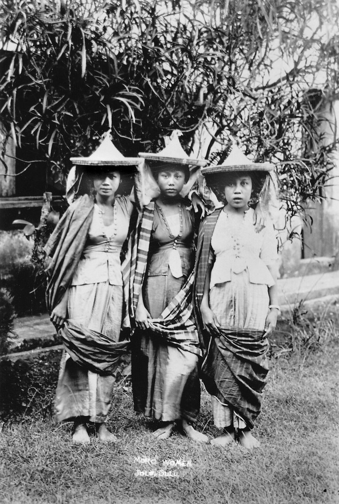 Three Moro women in Jolo, Sulu during the 1900s.